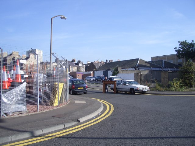 Tennant Street Corner of Tennant Street where it turns a corner to join Jane Street. The white buildings are the auction rooms of Ramsay Cornish . An old street map suggests that the street between this point and Jane Street was called Waddell Street, but this no longer appears to be the case.